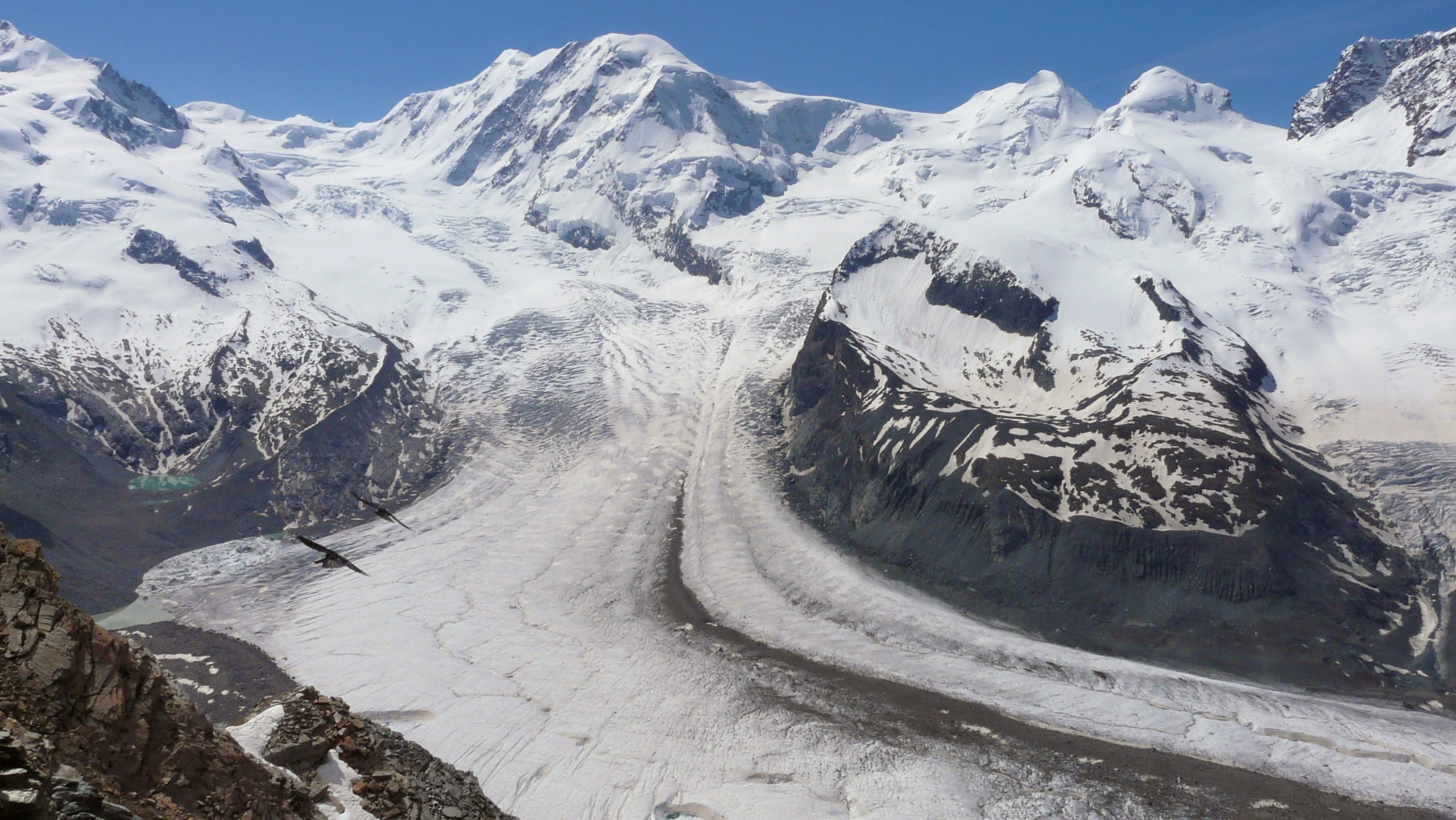 Grenzgletscher and Gornergletscher as seen from Gornergrat in 2008 June.